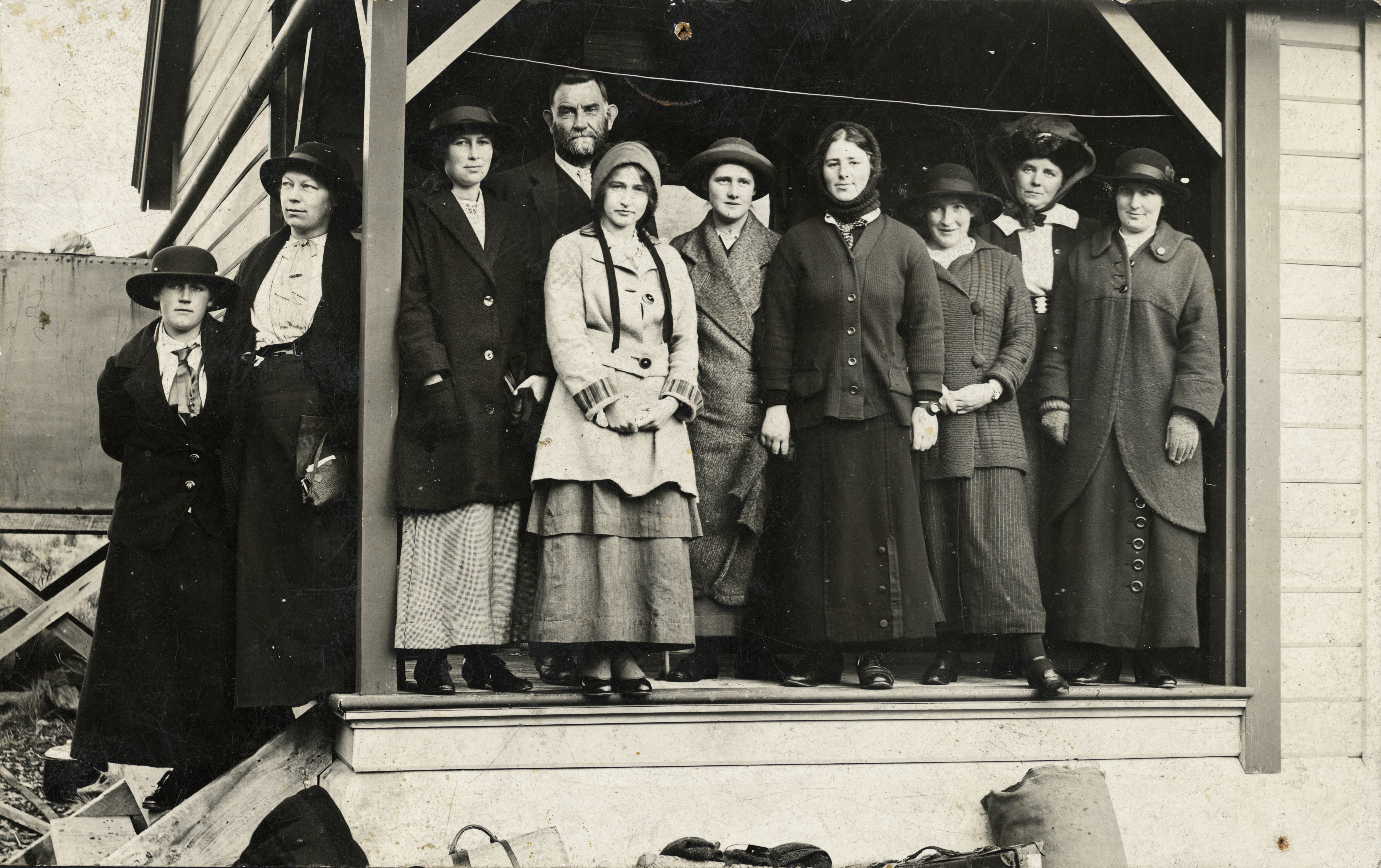 Photograph of Dr Charles Chilton (back), and eight women students from Canterbury College, at Cass Biological Station in the Southern Alps, taken circa 1920 by an unidentified photographer. The woman second from right is possibly Chilton's wife Elizabeth.